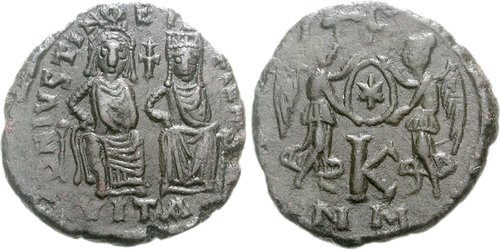 Æ 20 Nummi – Half Follis (9.66 g, 5h). Struck circa 574/5-577/8 AD in Carthage during the reign of the byzantine king Justin II (565-578 AD). D N IVSTINO ET [SO]FIE A[V], Justin and Sophia, both crowned and resting right hands on knee, seated facing on double throne; cross between, VITA in exergue / Two Victories standing confronted, holding between themselves a shield ornamented with a star; cross above, K below, NM in exergue.